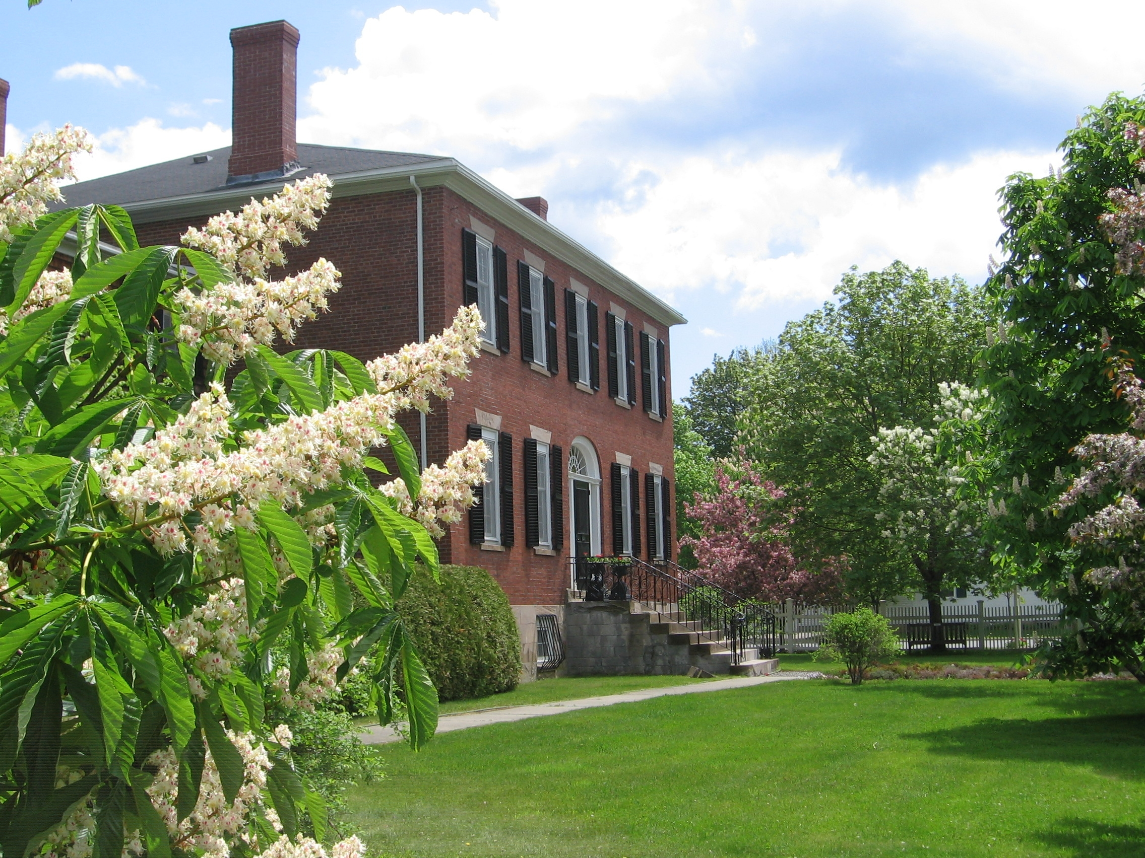 Outside view of Ross Memorial Museum